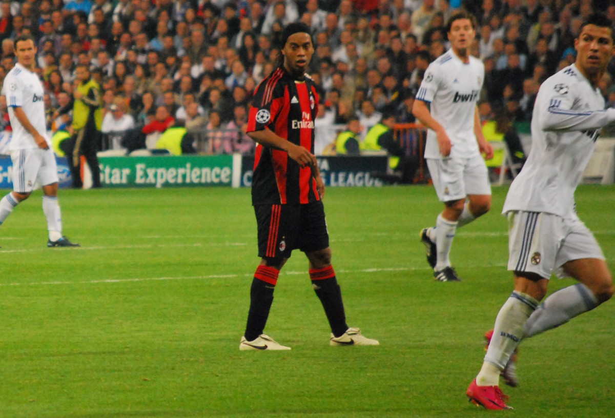 Ricardo Carvalho, Ronaldinho, Xabi Alonso and Cristiano Ronaldo during Real Madrid CF-AC Milan, 2010–11 UEFA Champions League